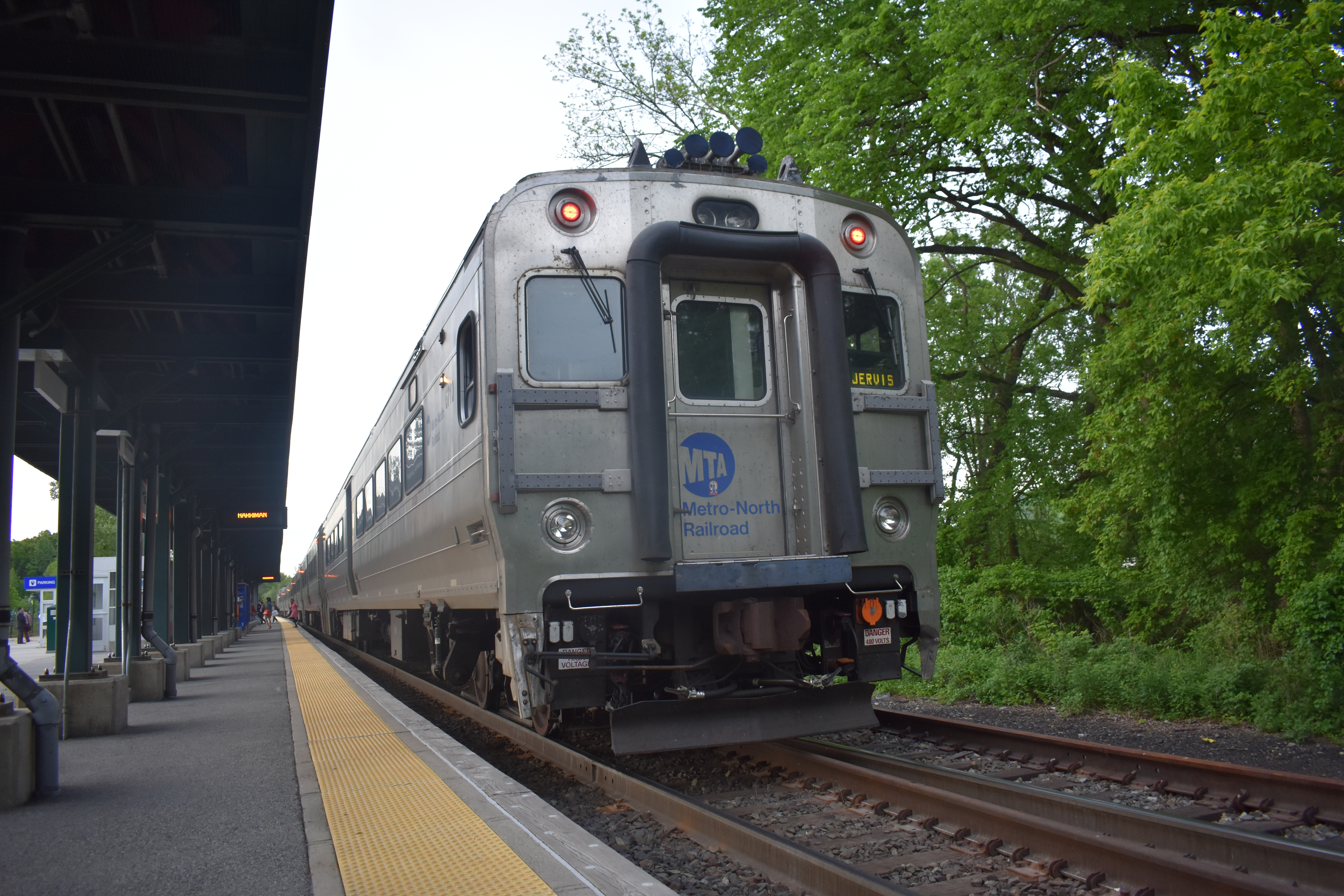 A train bound for Port Jervis boards passengers at Harriman.